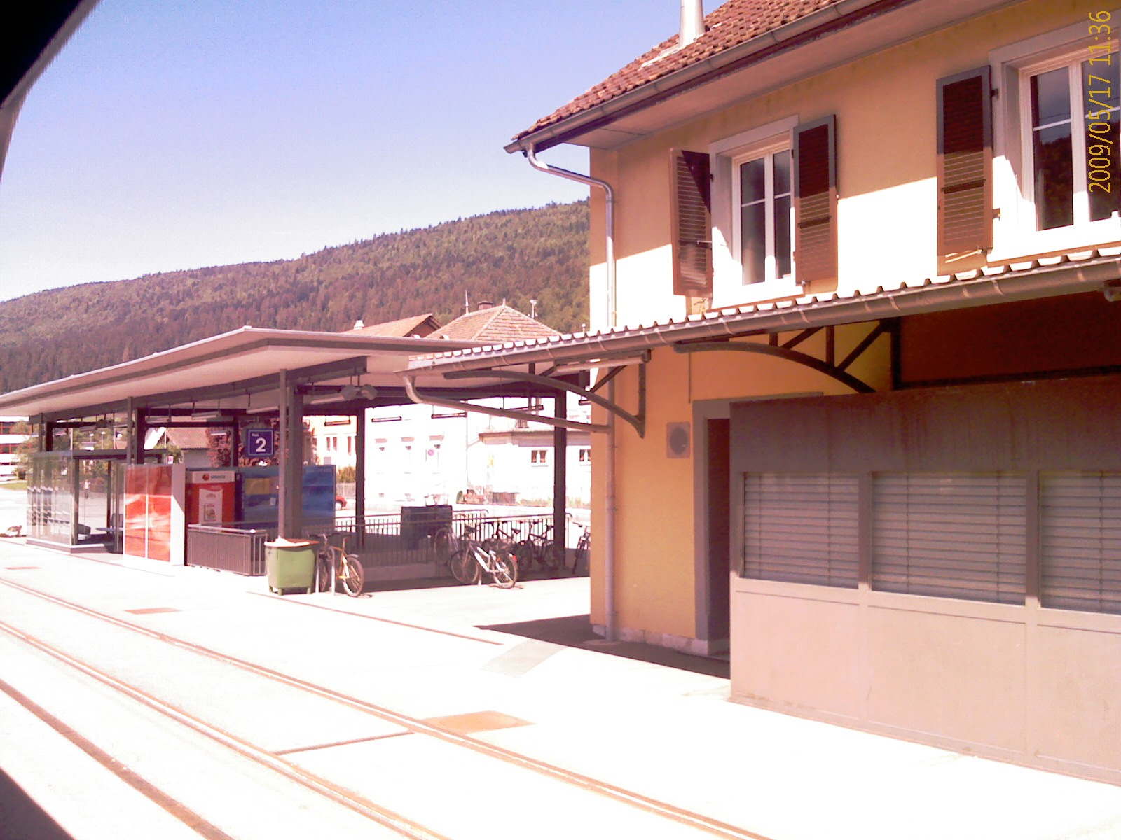 Trainstation of Courtelary, canton of Bern, SwitzerlandEsperanto: Stacidomo de Courtelary, Kantono Berno, Svislando